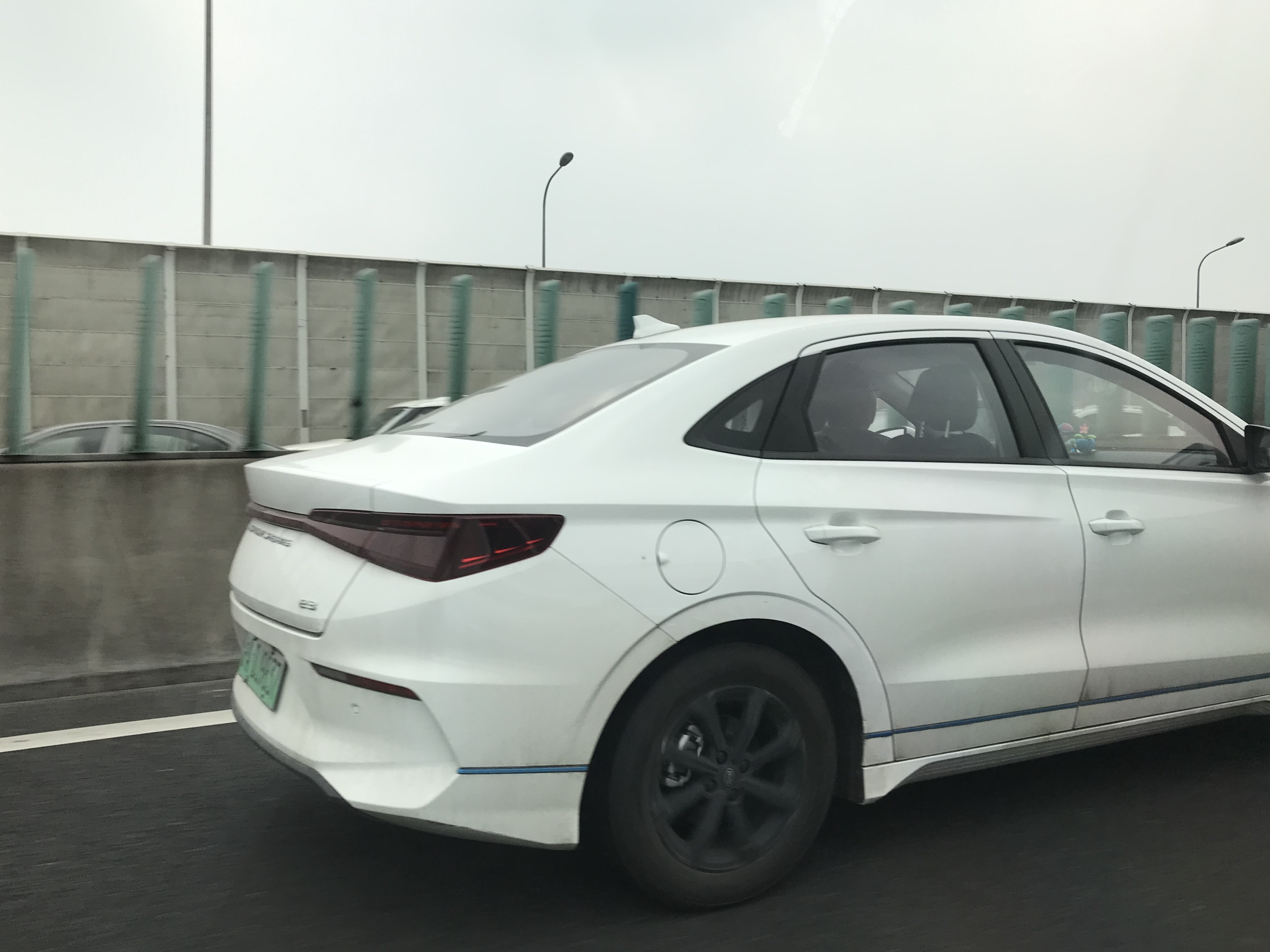 BYD E3 (sedan based on the BYD E2) rear quarter view